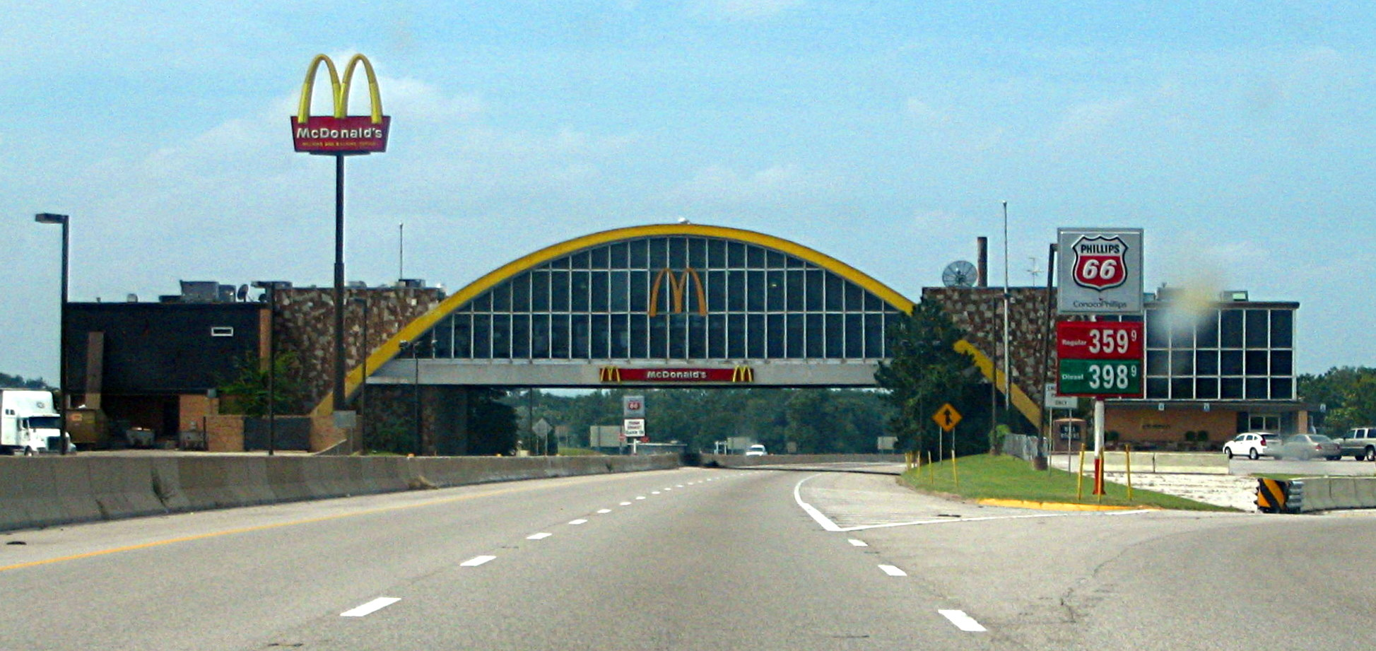 Largest McDonalds in the US, near Vinita, OK